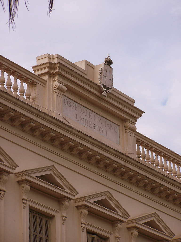 Italian Hospital King Humbert I, in Montevideo (Uruguay).